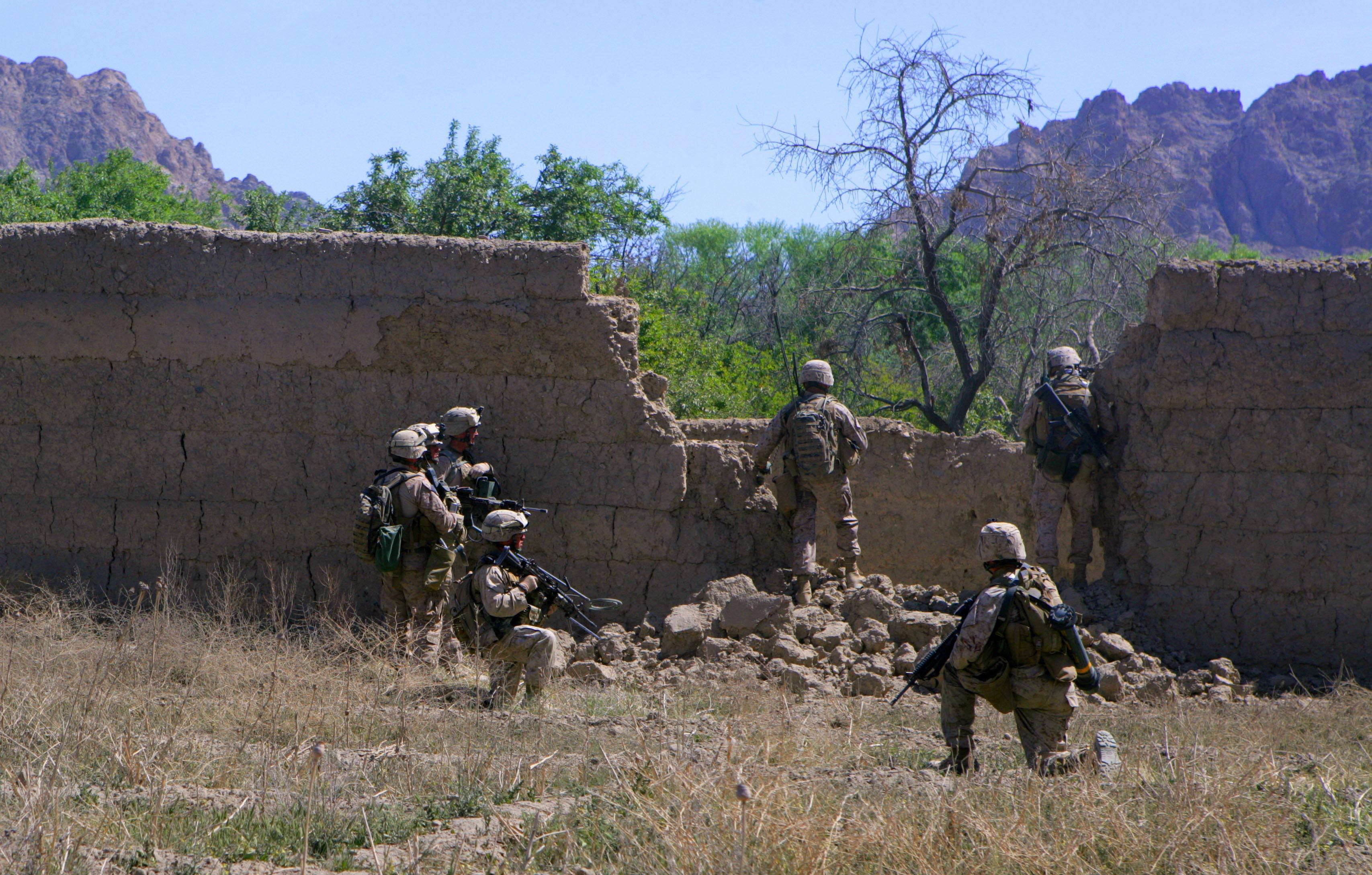 U.S. Marines maneuver through a wall to conduct site exploitation after a precision aerial attack during a combat operation in the abandoned village of Now Zad, Helmand province, Islamic Republic of Afghanistan, April 3. The residents of Now Zad were forced to abandon their homes nearly three years ago out of fear for their lives due to the strong presence of insurgents. By conducting combat operations here, Marines are bringing Now Zad closer to the reintroduction of Afghan-led governance.The Marines of Company L, 3rd Battalion, 8th Marine Regiment (Reinforced), the ground combat element of Special Purpose Marine Air Ground Task Force - Afghanistan, have served in Now Zad since November 2008. SPMAGTF-A is committed to assisting the Government of the Islamic Republic of Afghanistan with providing security to the Afghan people.